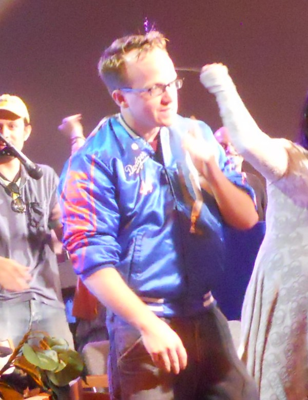 Chris Gethard at a taping of The Chris Gethard Show